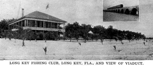 Long Key Fishing Camp - Layton, Florida